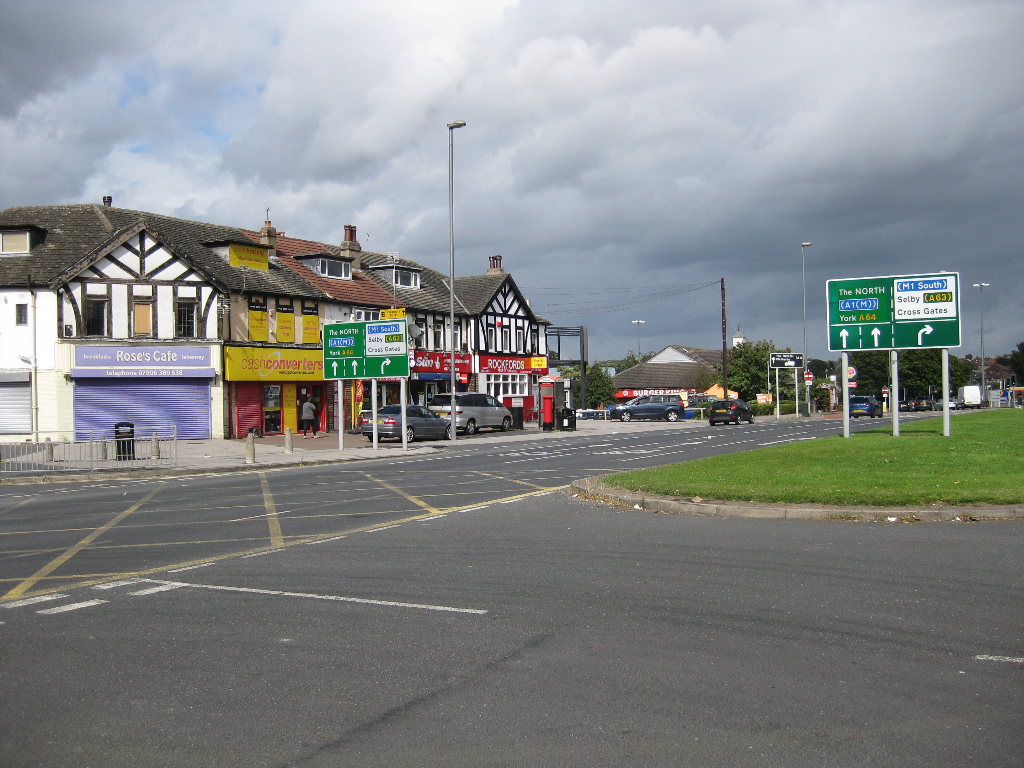 York Road, Killingbeck. Junction with Foundry Lane (left) and Crossgates Road (right) and ahead, looking North. Shops on the left.